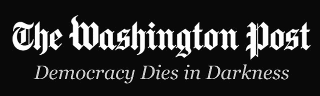 Masthead of The Washington Post, with the slogan "Democracy Dies in Darkness" adopted in 2017.